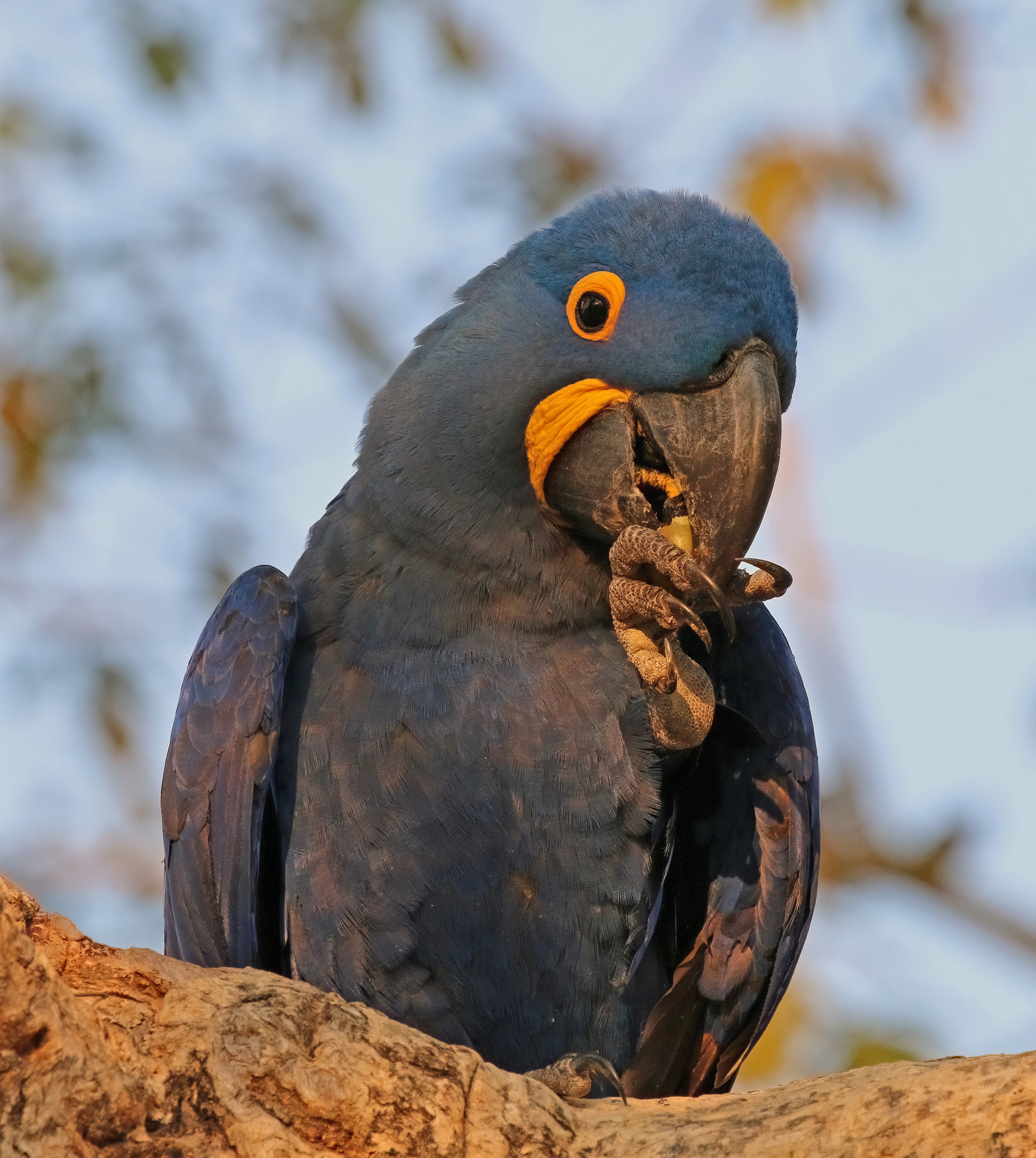 Hyacinth macaw (Anodorhynchus hyacinthinus), the Pantanal, Brazil